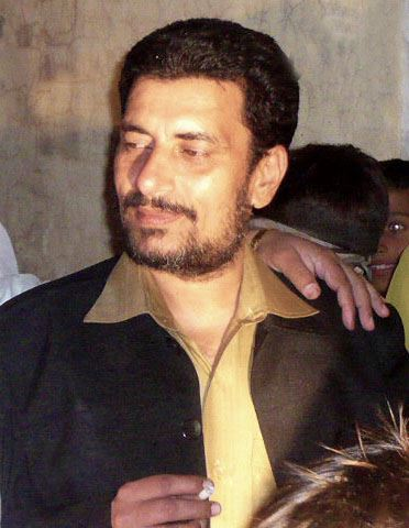 This image of Idris Azad (ادریس آزاد) is taken at marriage ceremony of Qasim yad . Idris Azad is famous writer, historical novelist, poet and man of literature and philosophy.